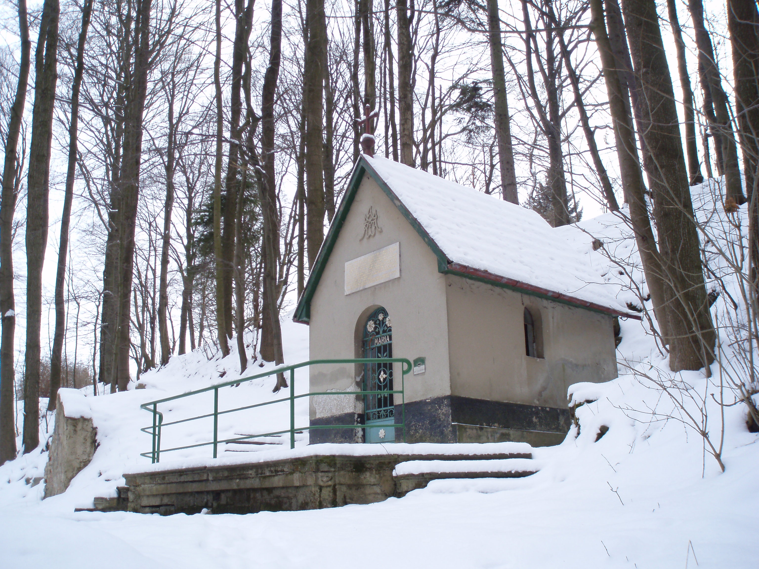 Chapel in Boušín in winter (Slatina nad Úpou, Czech Republic)